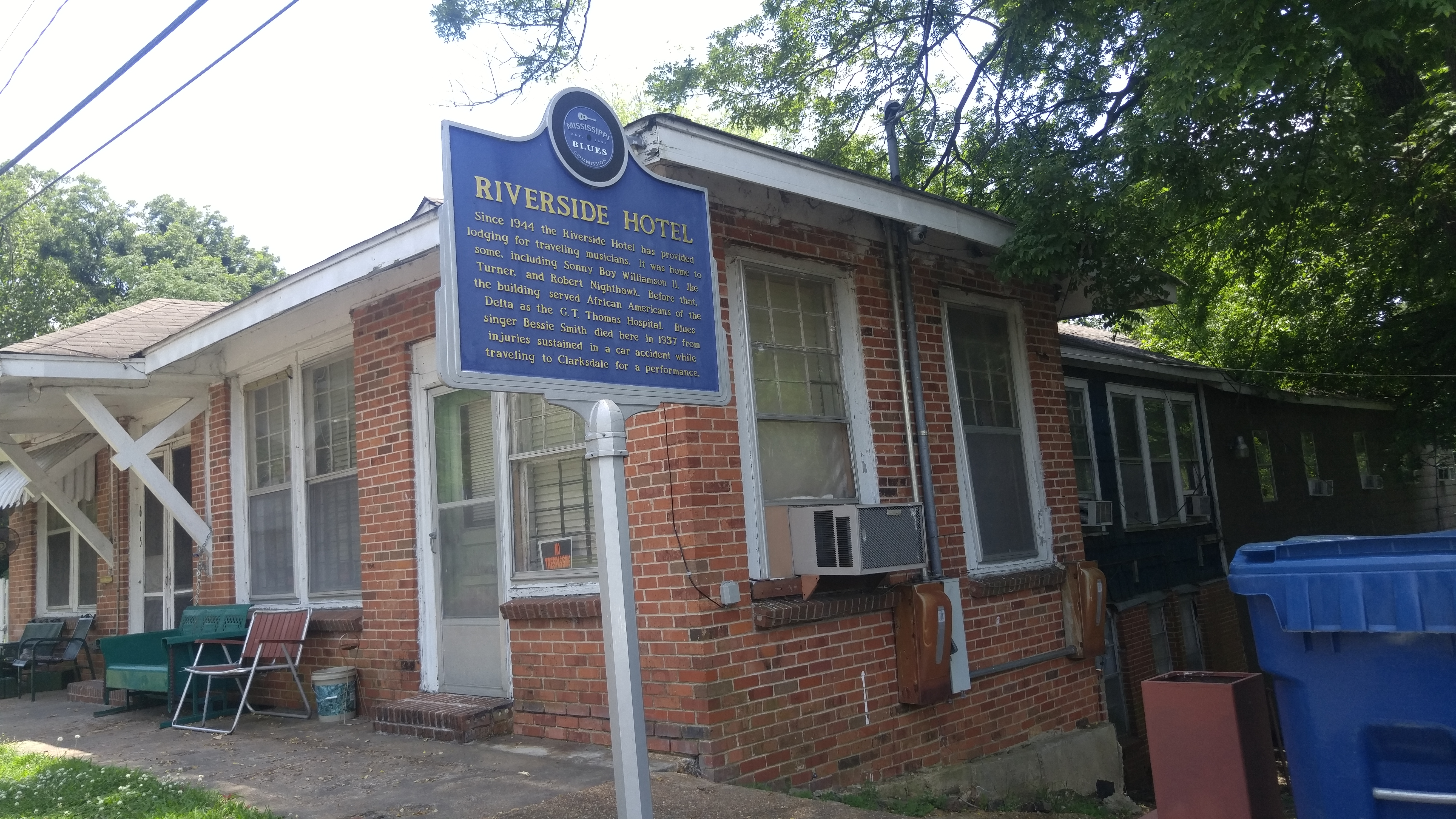 Blues trail marker located in downtown Clarksdale